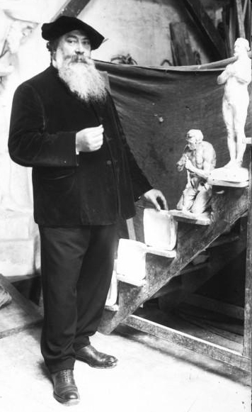 French sculptor Jean Baffier (1851-1920)